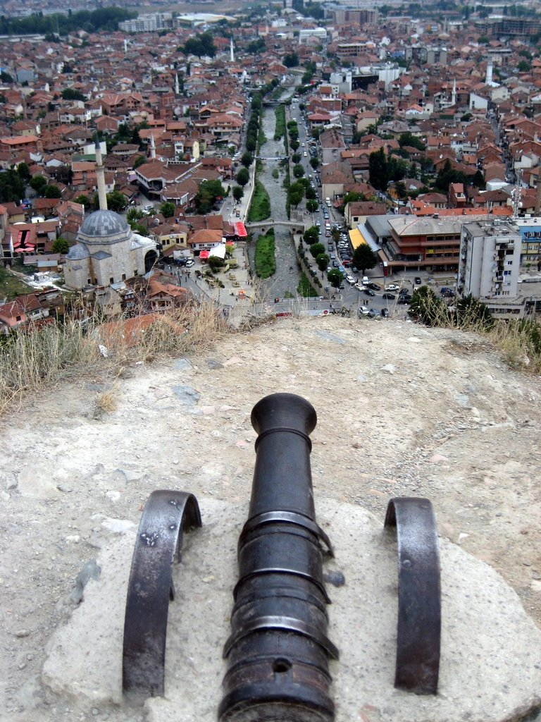 Photos from Arianit Dobroshi for Wikimedia Commons. Original Filename "arianit/PrizrenMirushe_1/IMG_0022.JPG"